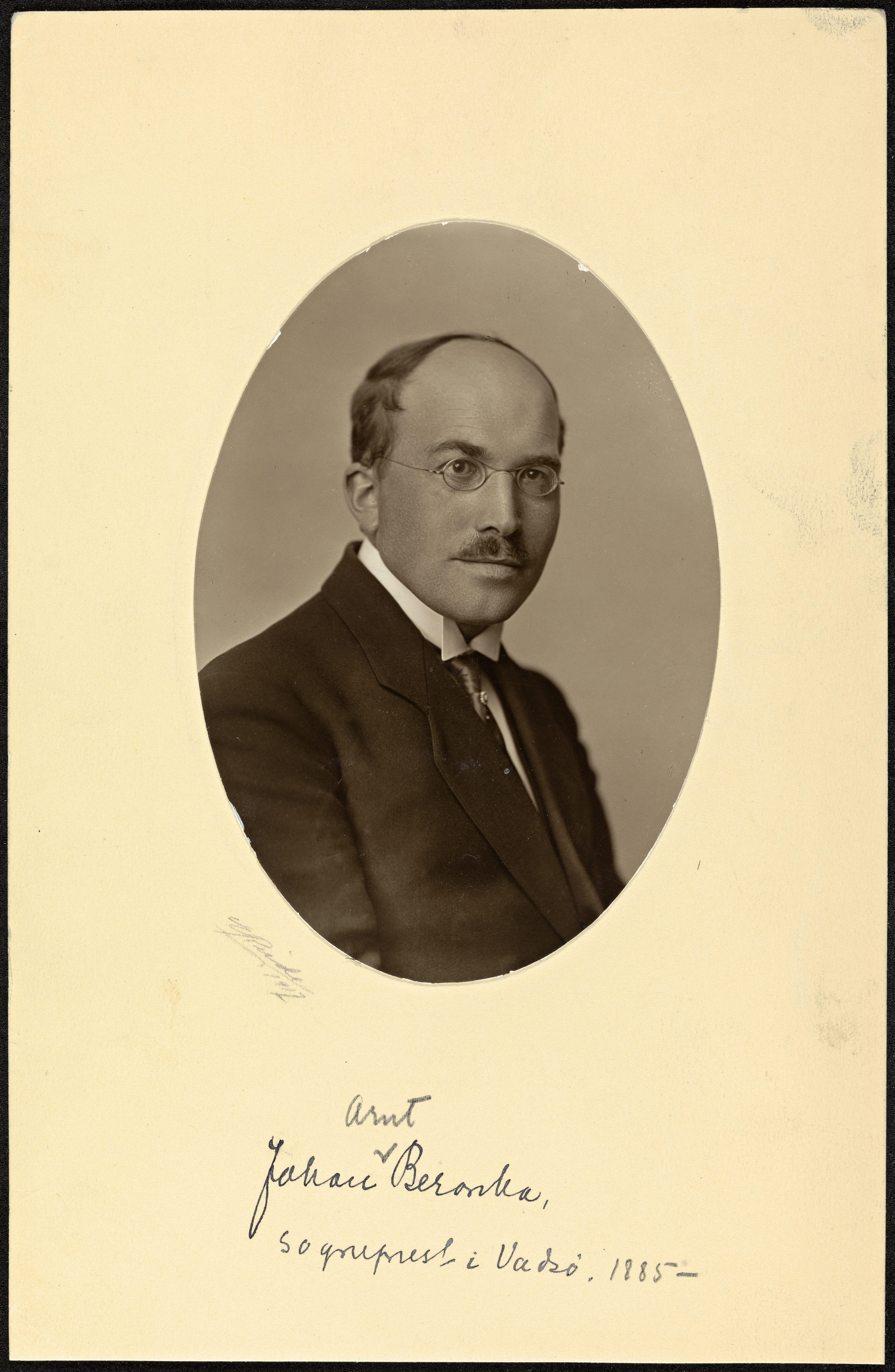 Beskrivelse / Description: Beronka var prest, språkforsker og lokalhistoriker, med kvensk bakgrunn. Dato / Date: ukjent / unknown Fotograf / Photographer: ukjent / unknown Digital kopi av original / Digital copy of original: s/h papirpositiv Eier / Owner Institution: Nasjonalbiblioteket / National Library of Norway Lenke / Link: Bildesignatur / Image Number: blds_07575